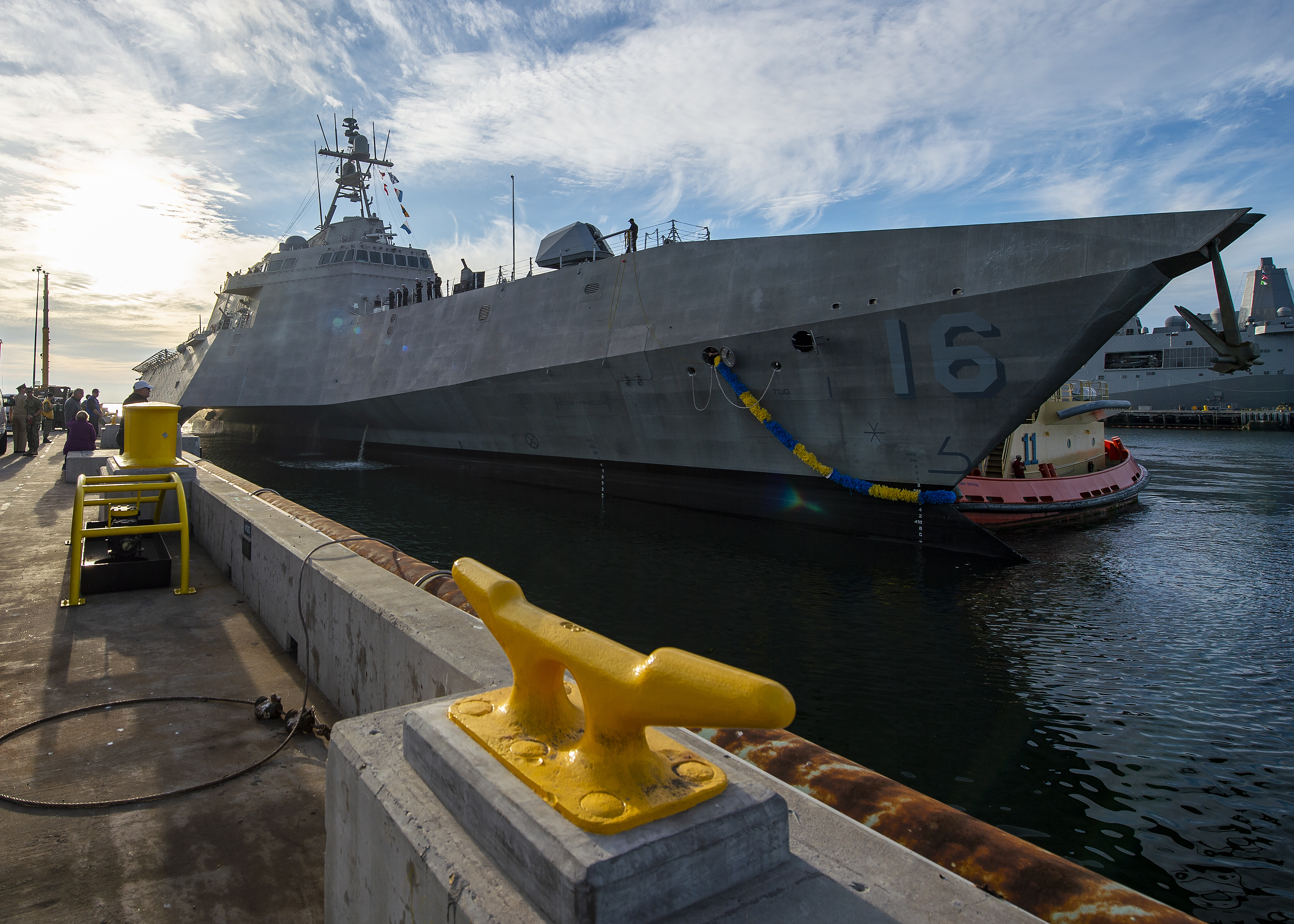 181121-N-CZ893-0575 SAN DIEGO (Nov. 21, 2018) The future littoral combat ship USS Tulsa (LCS 16) arrives at its new homeport at Naval Base San Diego after completing its maiden voyage from the Austal USA shipyard in Mobile, Alabama. Tulsa is the eighth ship in the littoral combat ship Independence-variant class and is scheduled for commissioning Feb. 16, 2019 in San Francisco. (U.S. Navy photo by Mass Communication Specialist 3rd Class Jason Isaacs/Released)